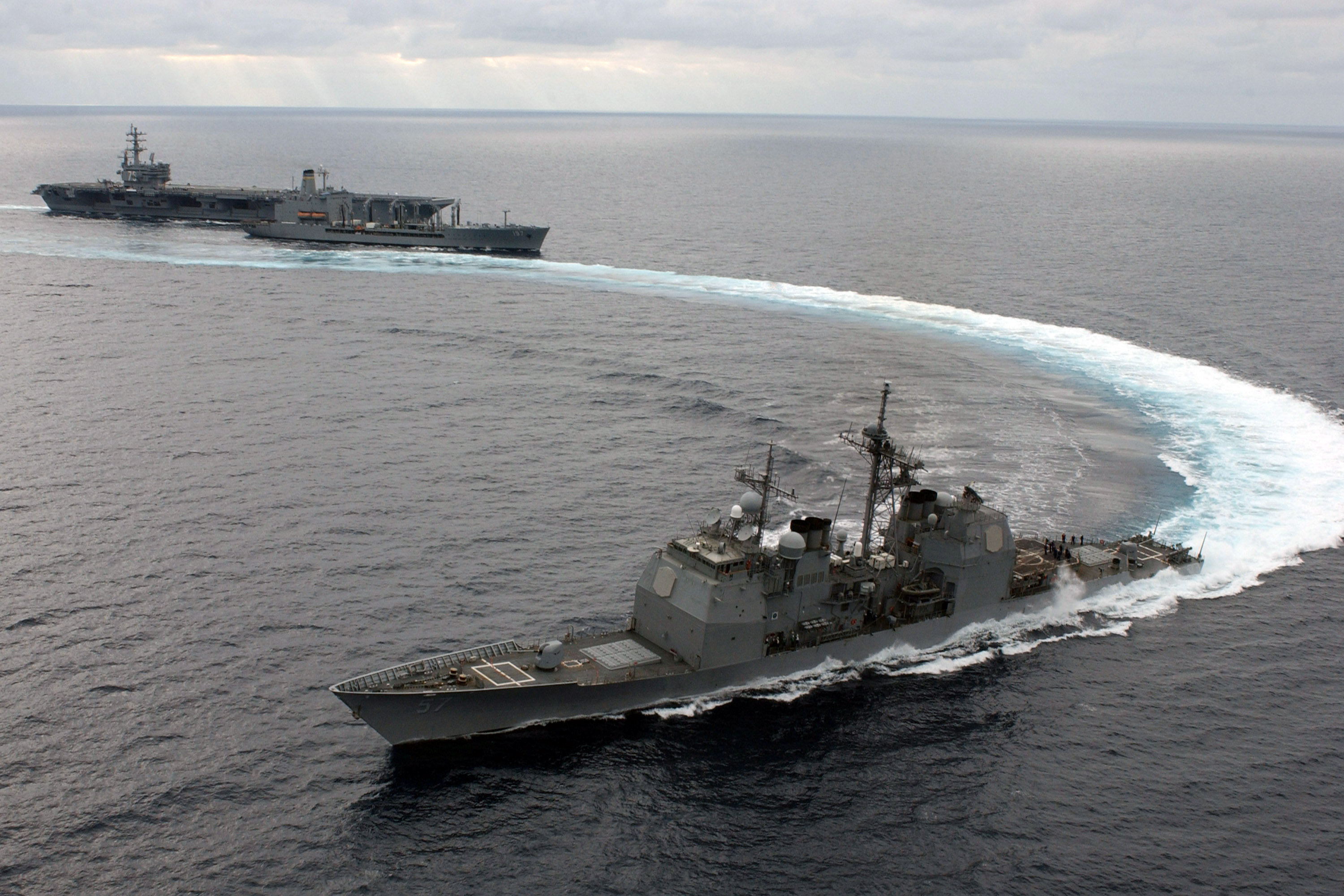 The guided missile cruiser USS Lake Champlain (CG-57) conducts an emergency breakaway exercise after completing an underway replenishment with the Military Sealift Command (MSC) oiler USNS Pecos (T-AO 197) and the aircraft carrier USS Ronald Reagan (CVN-76). Nov. 10, 2004 in the Pacific Ocean.